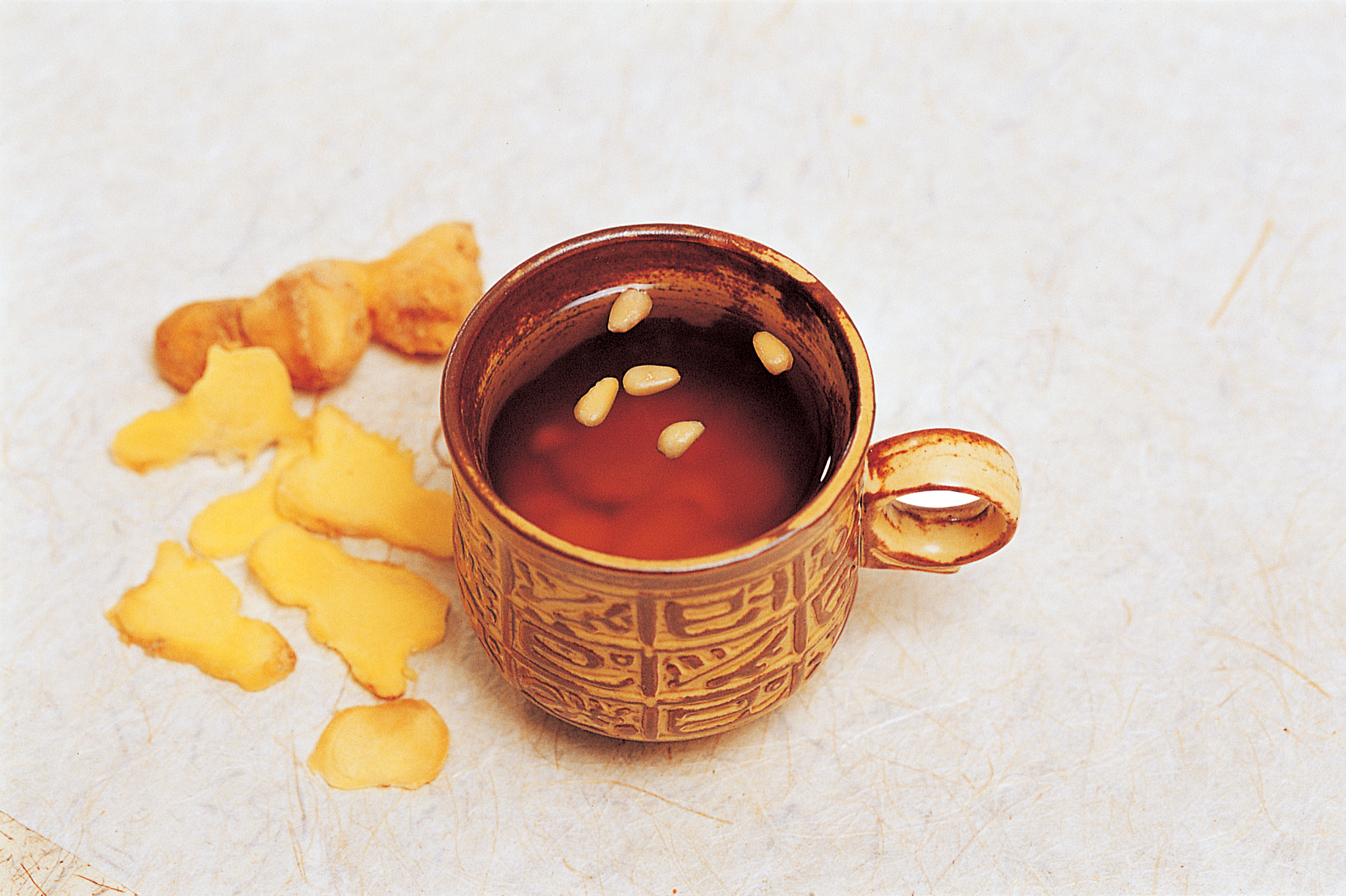 Tea made from ginger root. The ginger root is washed and sliced without peeling. The sliced ginger root is stored with honey for a few weeks. To make tea the mixed honey and ginger root is added to hot water